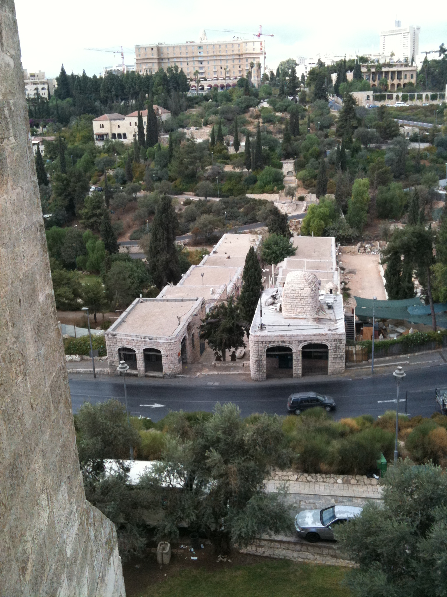 Jerusalem